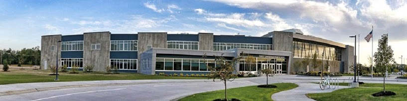 A panoramic photo of Unity Christian High School in Hudsonville, MI